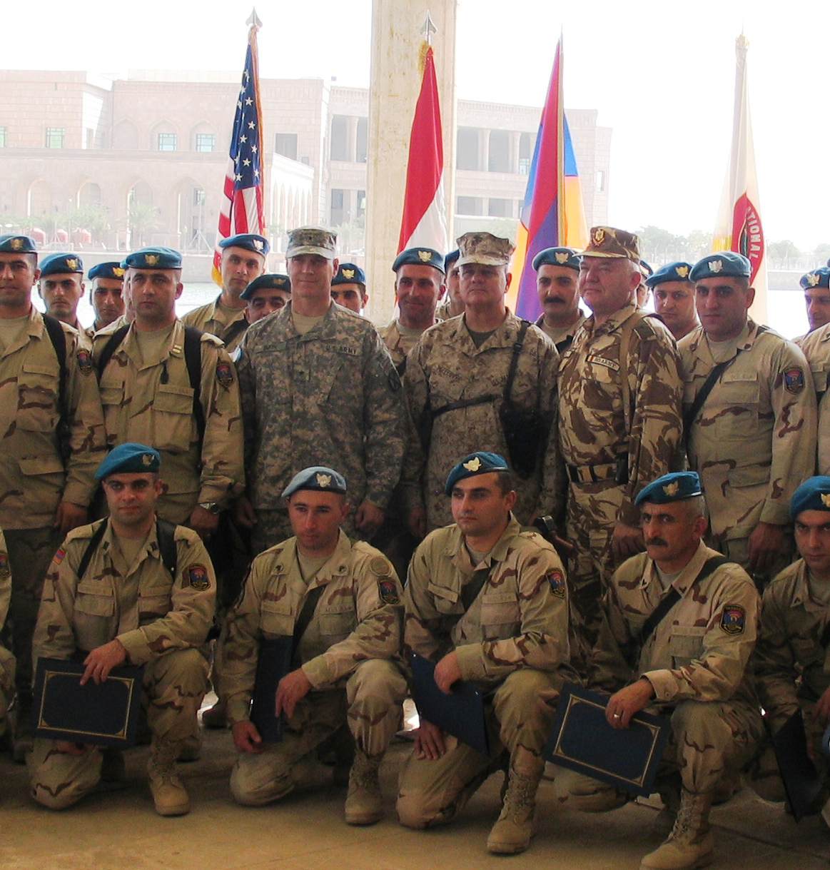 Coalition forces commemorate the end of mission for the Armenian component in Iraq at the Joint Visitor Bureau, Camp Victory, Oct. 6, 2008. Armenia has supported Operation Iraqi Freedom since 2005.